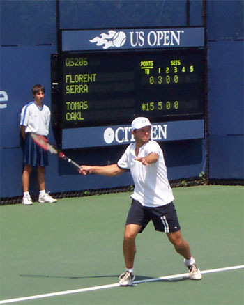 photo taken by me of czech player Tomas Cakl at the 2004 U.S. Open qualifying